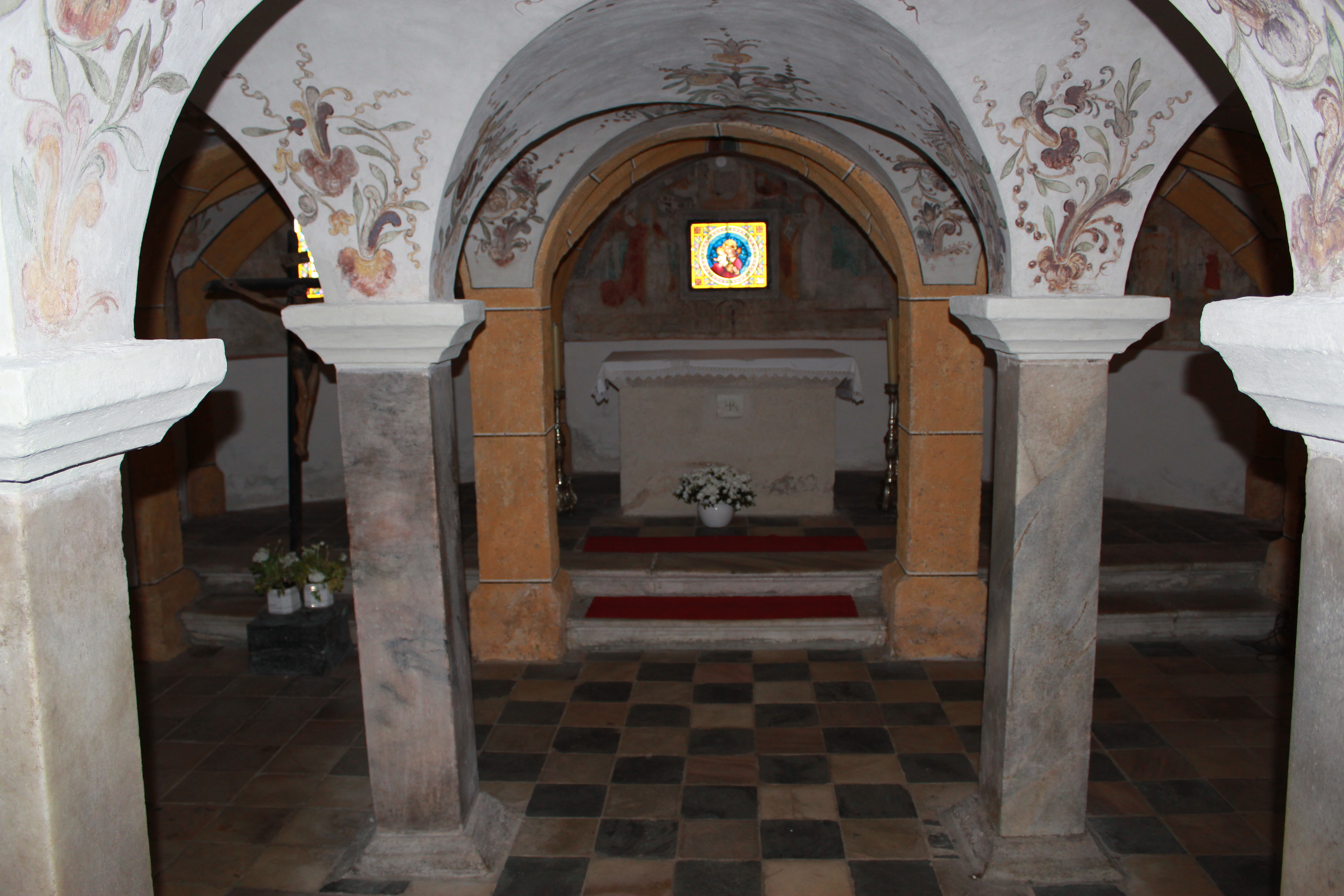 Parish-church in Maria Wörth - Mainaltar - Crypt